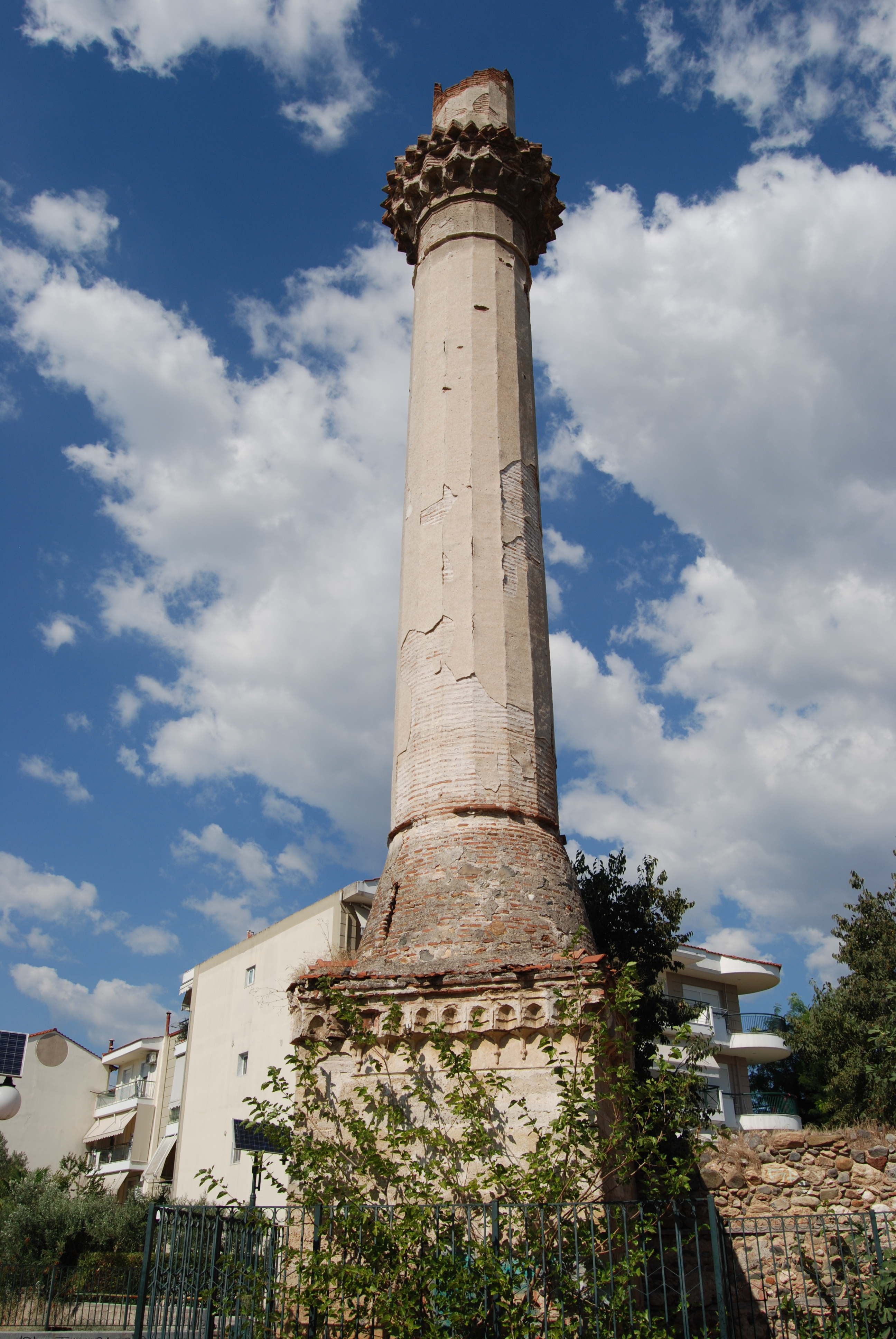 Sedes mosque